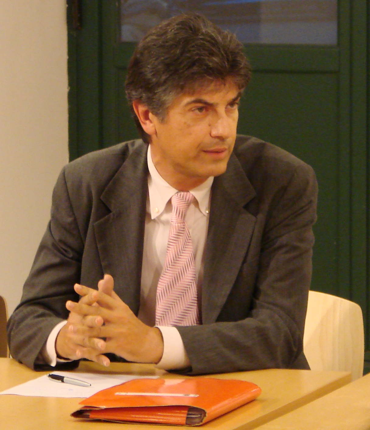 Miran Košuta at the slavistic congress in Trieste (date: October 19th 2007).